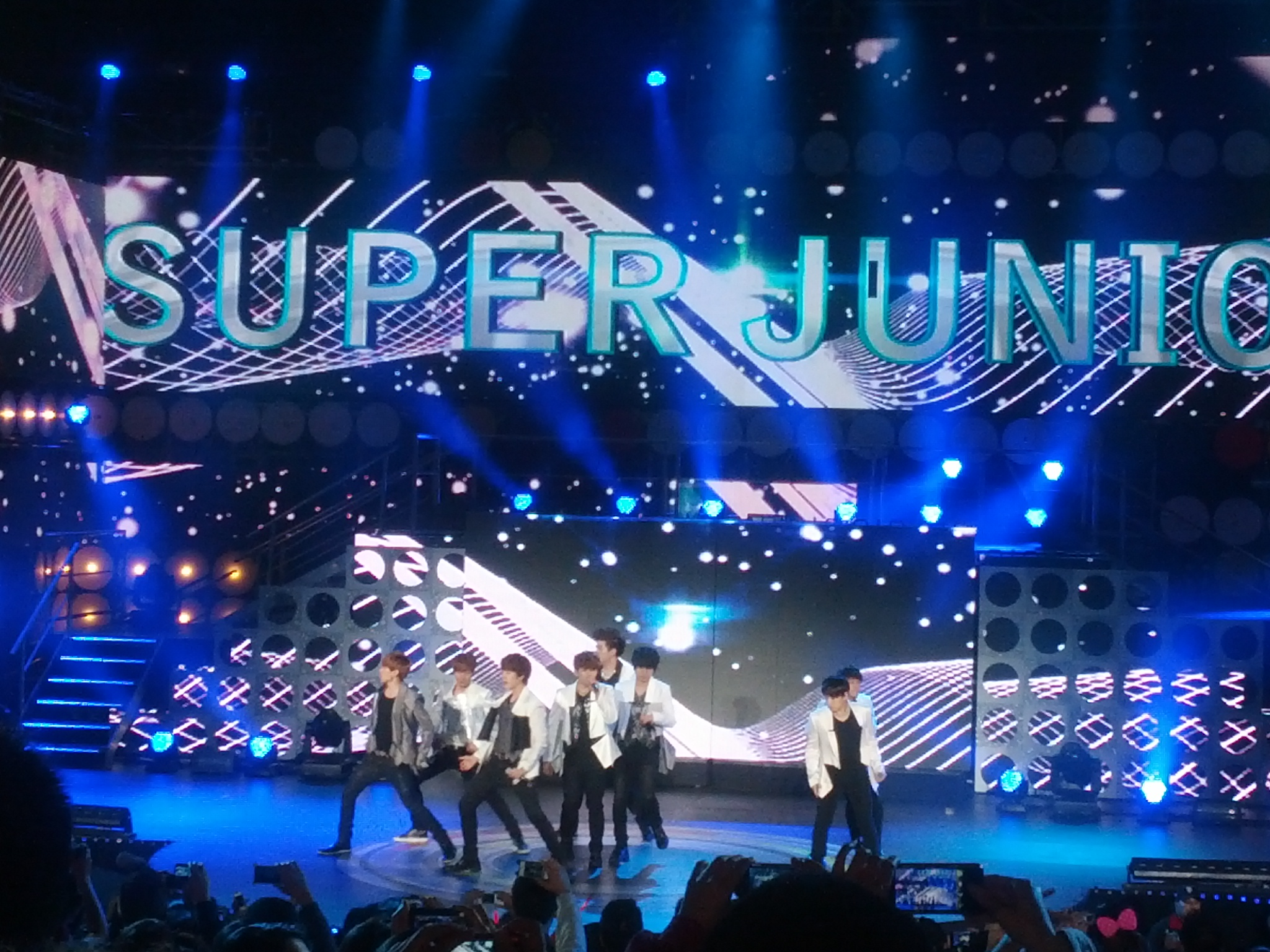 Super Junior performing at 'MBC Korean Music Wave In Google' concert, Shoreline Amphitheatre, Mountain View, California